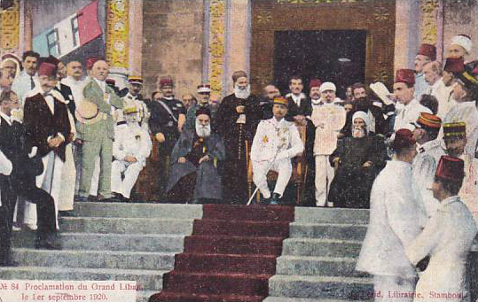 On September 1 1920, General Gouraud proclaims the creation and independence of the state of Greater Lebanon under the guardianship of the League of Nations represented by France from the porch of the Pine Residence in Beirut.